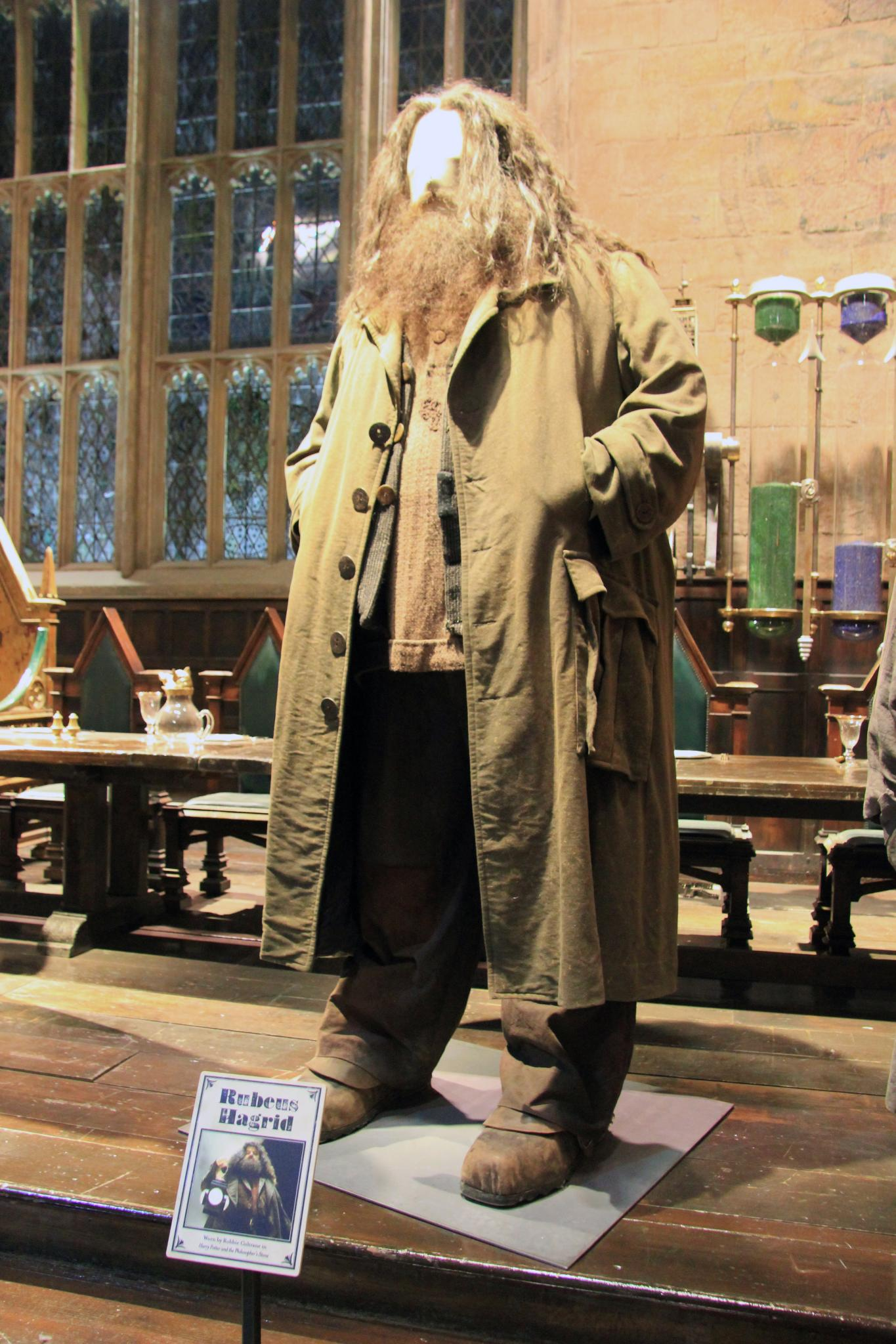 Warner Bros. Studio Tour London: The Making of Harry Potter.